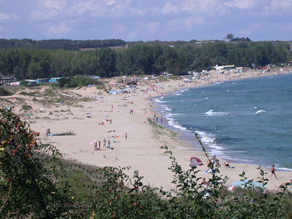 View to Smokinya camping near Sozopol at South Bulgarian Black Sea coast